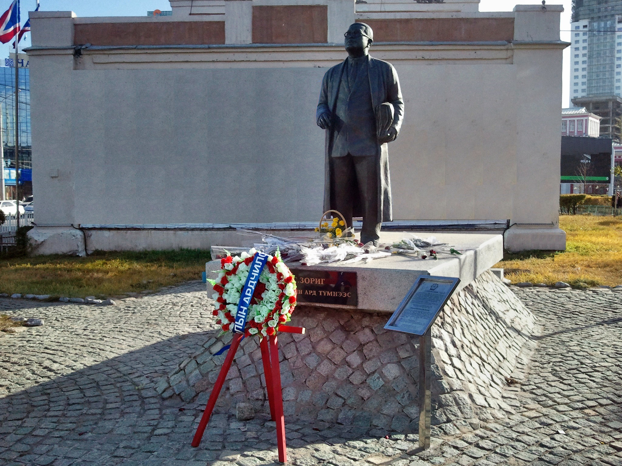 Sanjaasuren Zorig 2015-10-04